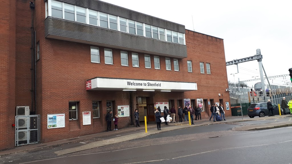 Exterior of Shenfield Station